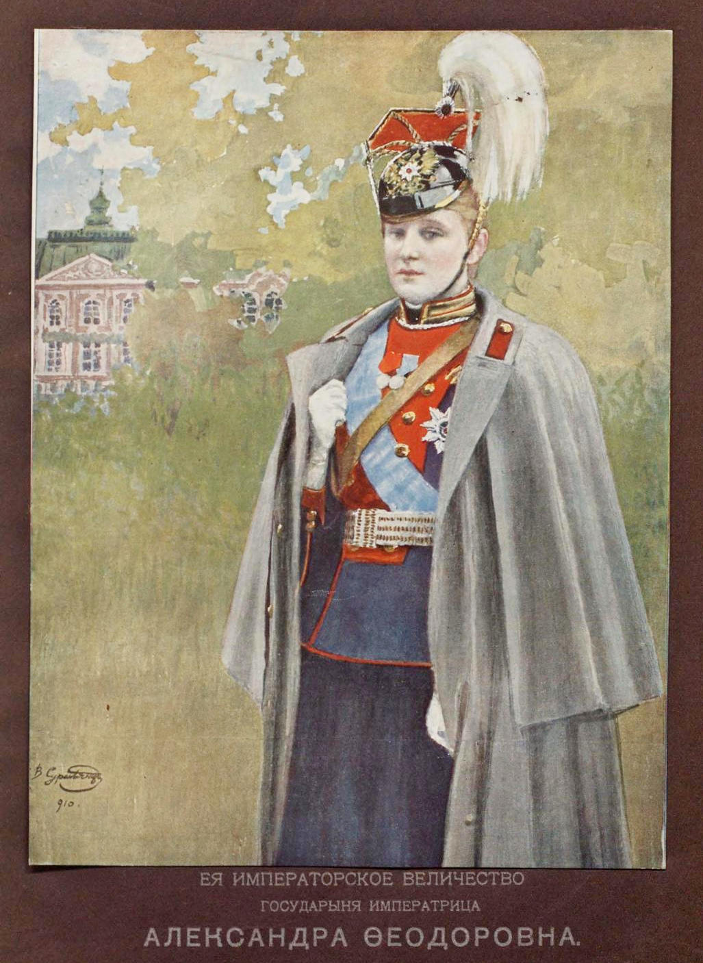 Alexandra Feodorovna (6 June 1872 – 17 July 1918) was Empress of Russia as the spouse of Nicholas II—the last ruler of the Russian Empire—from their marriage on 26 November 1894 until his forced abdication on 15 March 1917. Originally Princess Alix of Hesse and by Rhine at birth, she was given the name and patronymic Alexandra Feodorovna upon being received into the Russian Orthodox Church and—having been killed along with her immediate family while in Bolshevik captivity in 1918—was canonized in 2000 as Saint Alexandra the Passion Bearer.